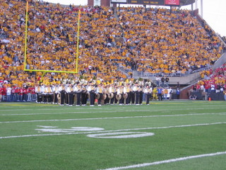 Hawkeye Marching Band, University of Iowa